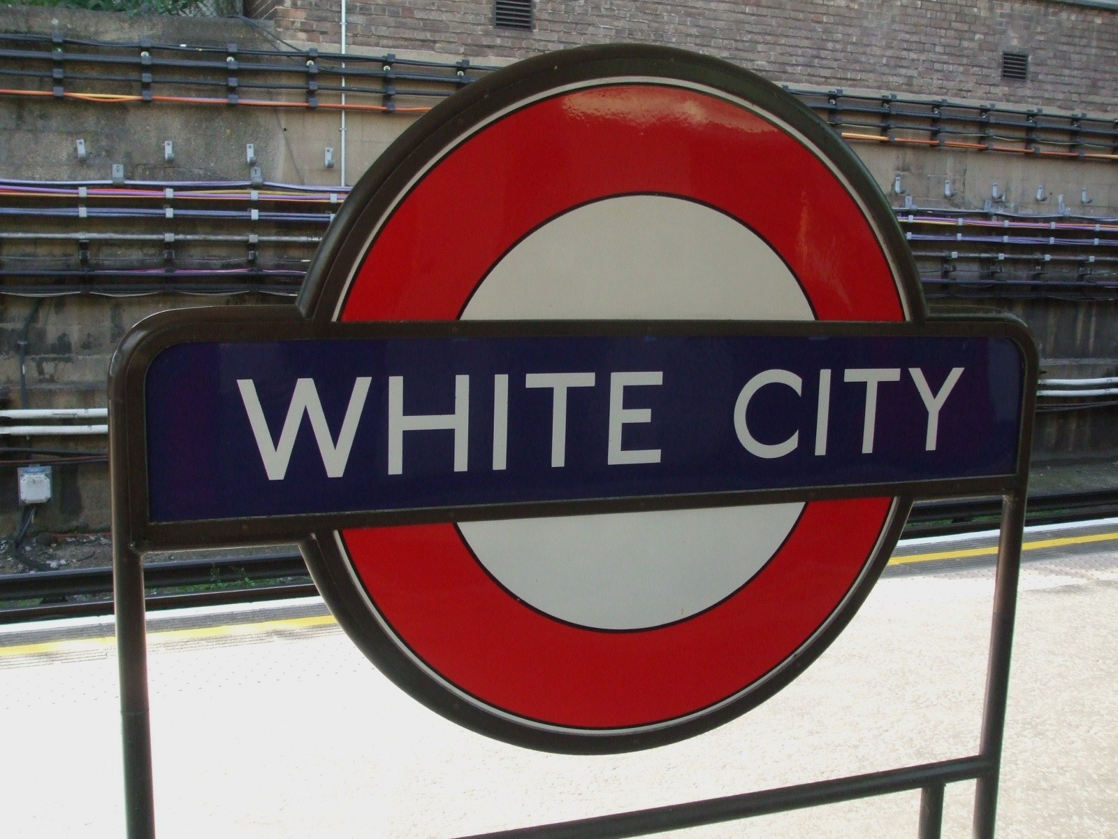 Platform roundel at White City tube station